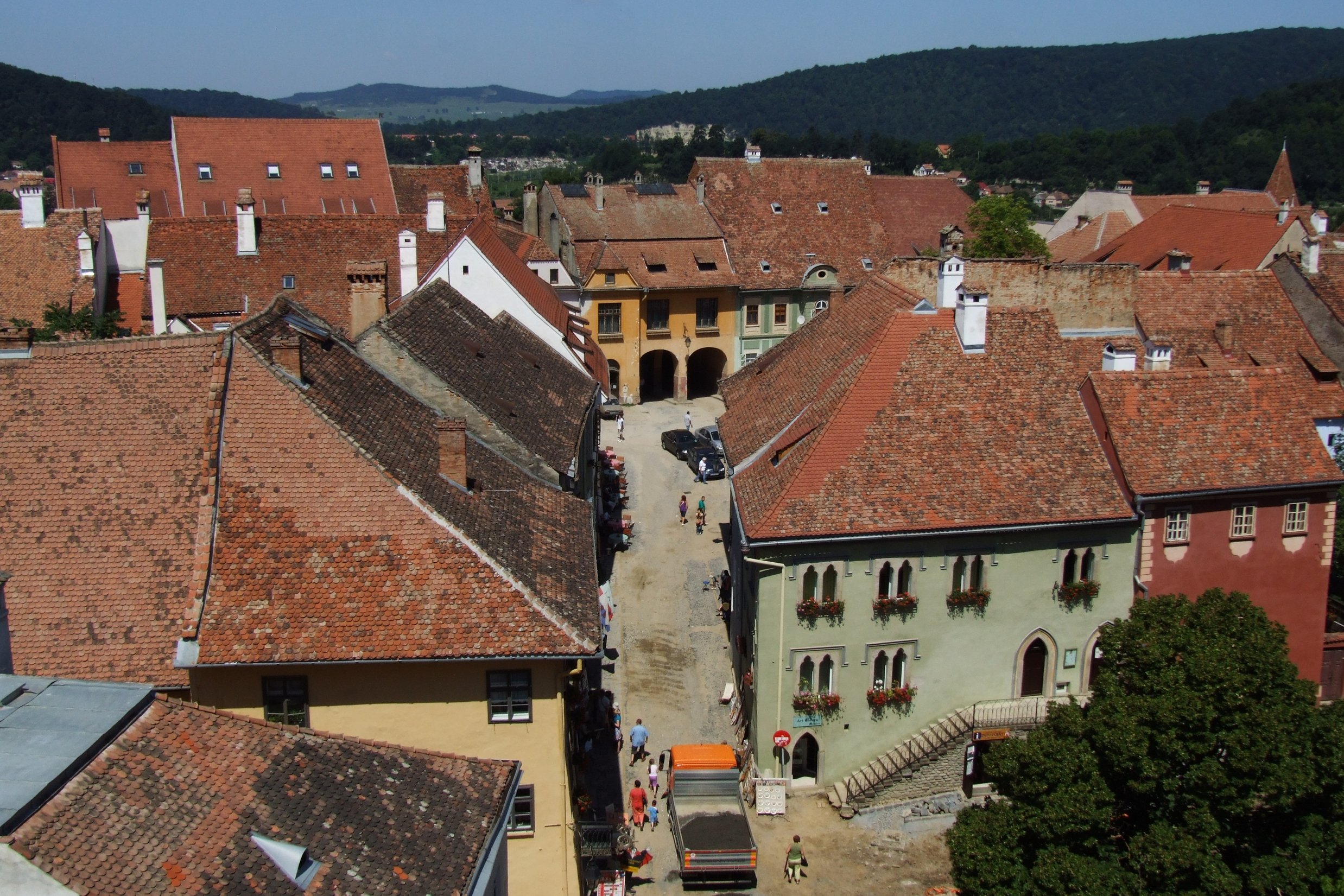 Sighişoara (Schäßburg, Segesvár) - view from Clock Tower